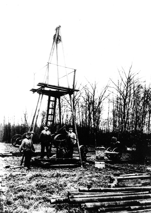 drilling derrick Bensberger Erzrevier